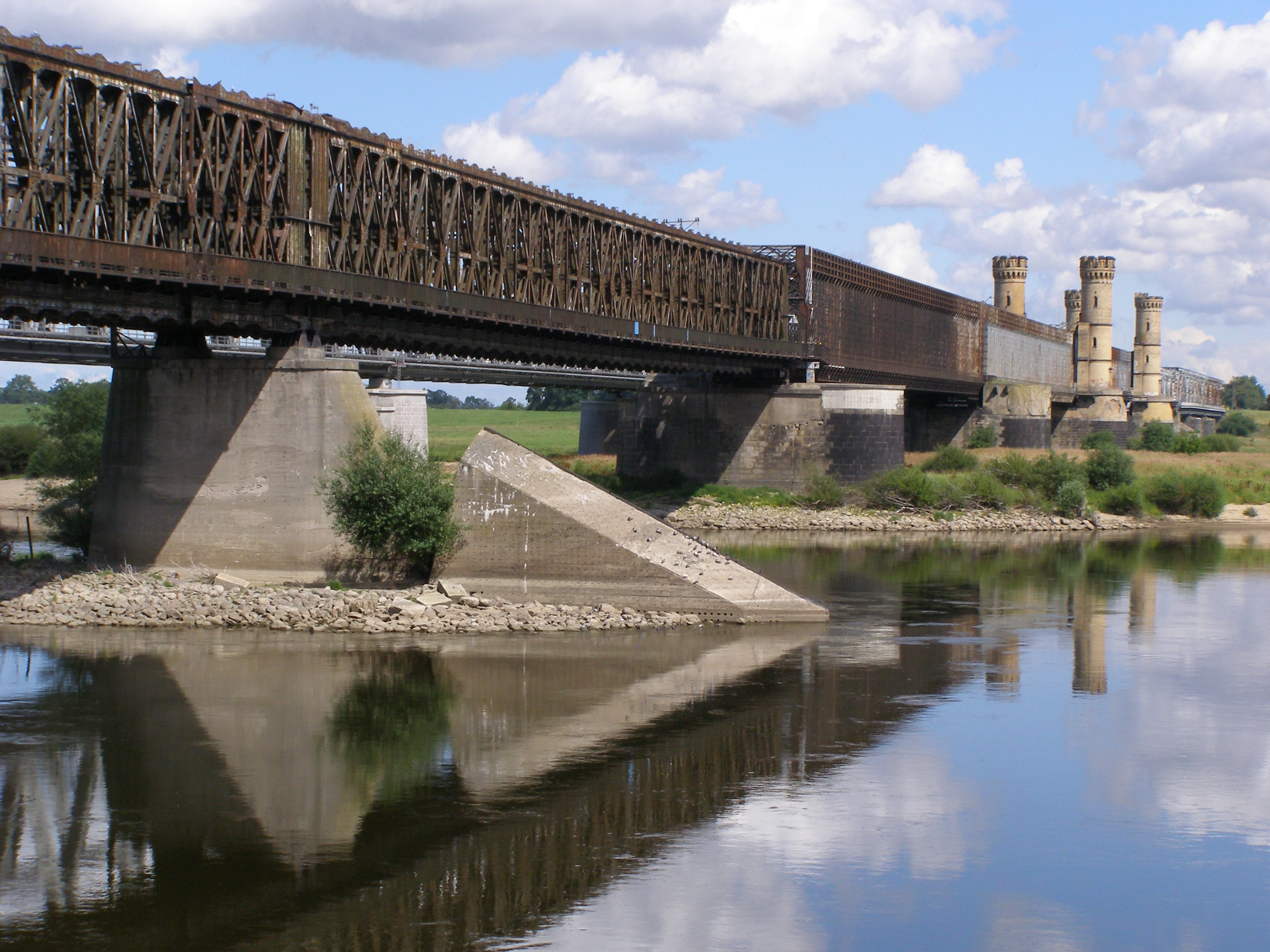 Tczew - the bridge over the Vistula